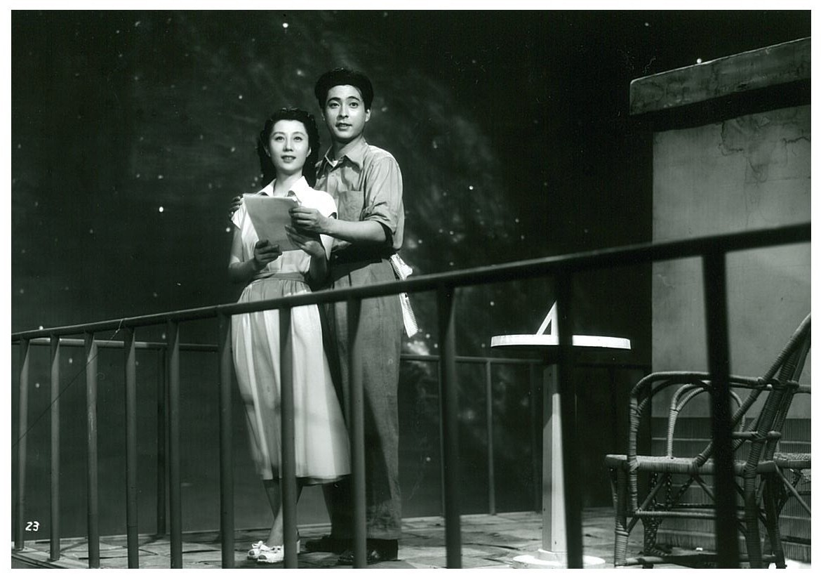 Machiko Mizuhara and Yūji Kawakita in Konna watakushi ja nakatta ni (こんな私じゃなかったに) directed by Yūzō Kawashima - 1952